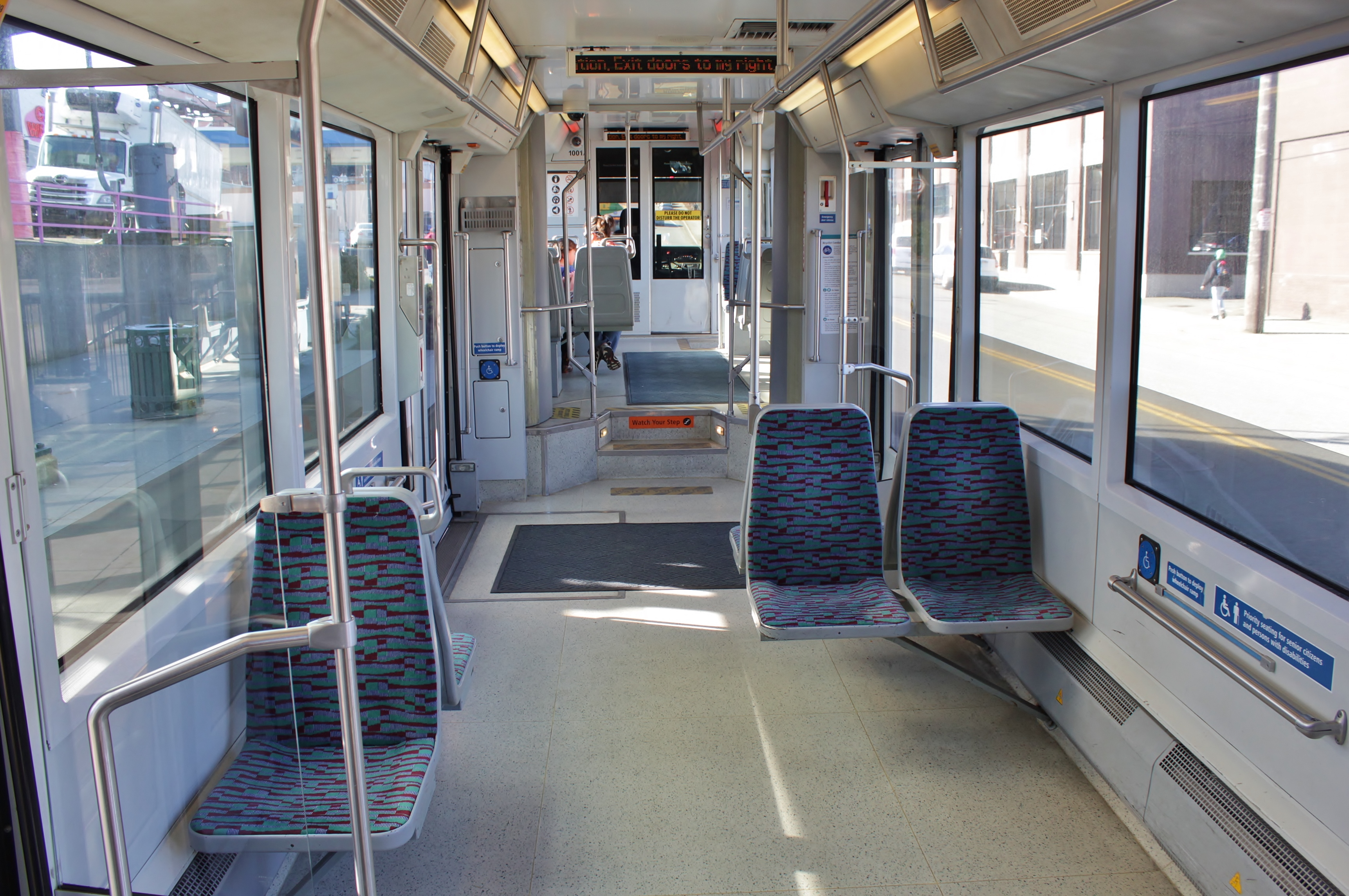 The interior of a 2003 Škoda 10 T streetcar operating on Tacoma Link in Tacoma, Washington, U.S.